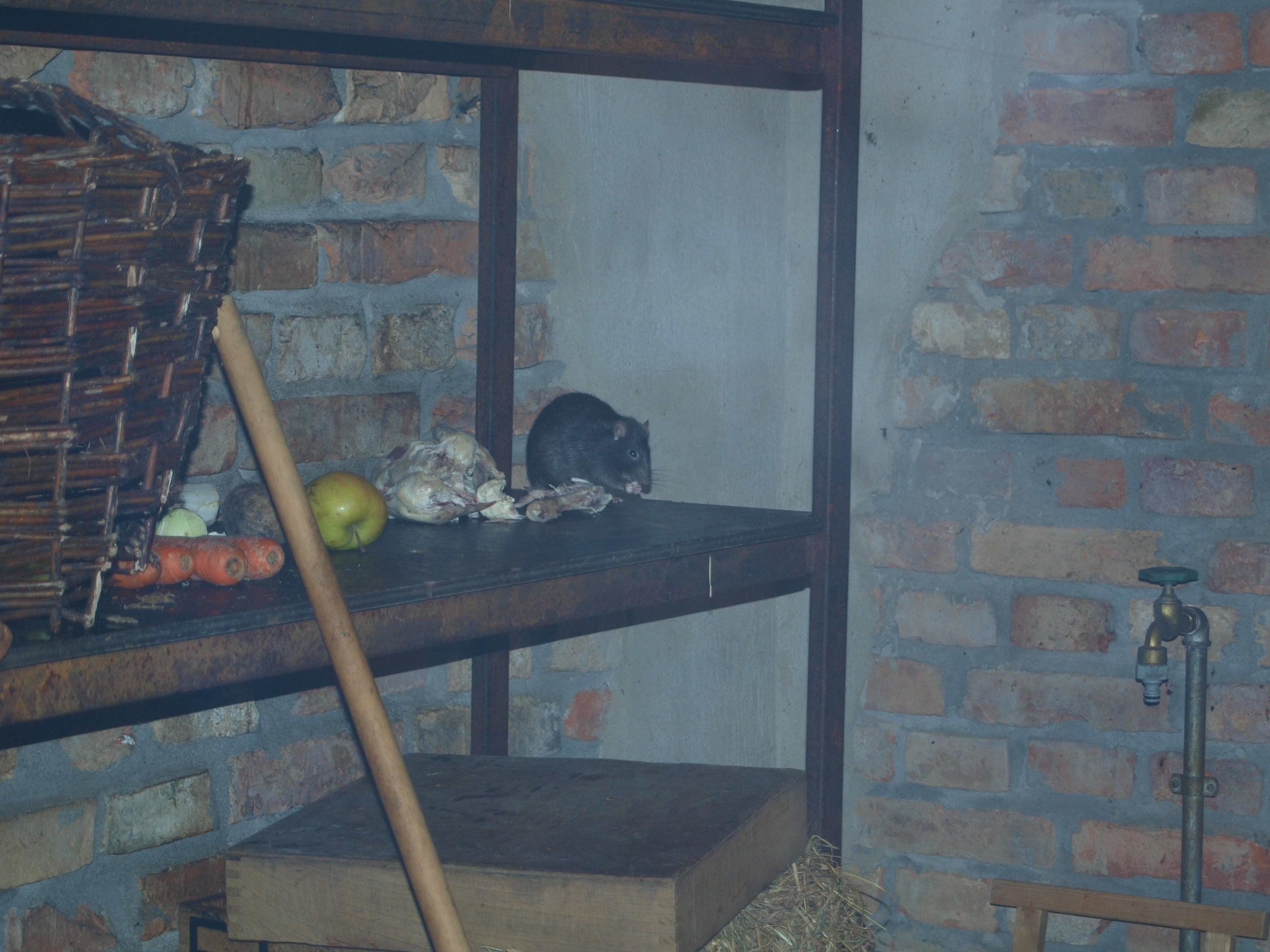 Rat